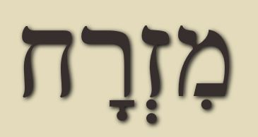 Mizrah - Hebrew characters of the word מזרח (mzrch, mizrah, mizrach) meaning East, indicating the direction of Jerusalem for praying purposes.